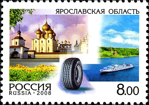 Russia Regions - Yaroslavl Region. Postage stamp of Russia. 8 roubles